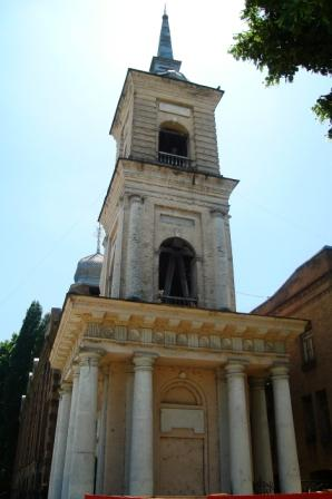 A Neoclassic bell tower at the Tbilisi Sioni Cathedral, 1812.